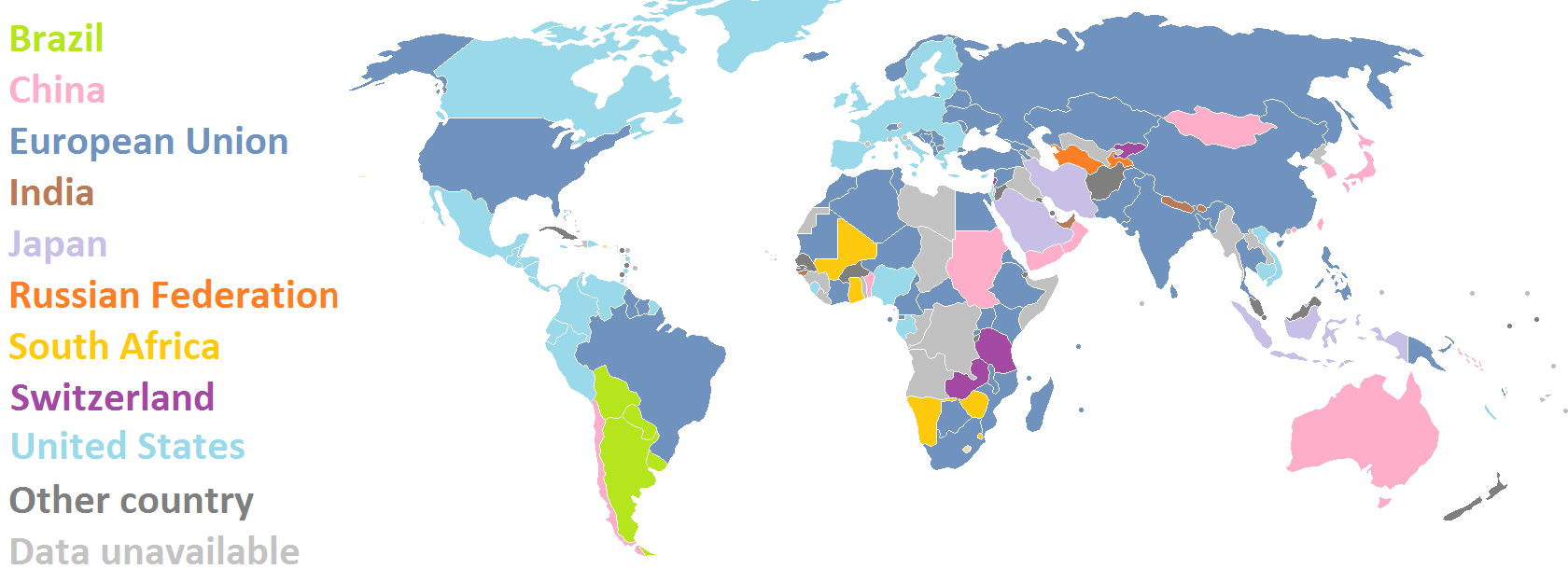 Identified economies which are the largest destination of exports for country/economy denoted on map. Derived from WTO online data, public access 2010